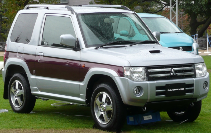 Mitsubishi Pajero Mini.